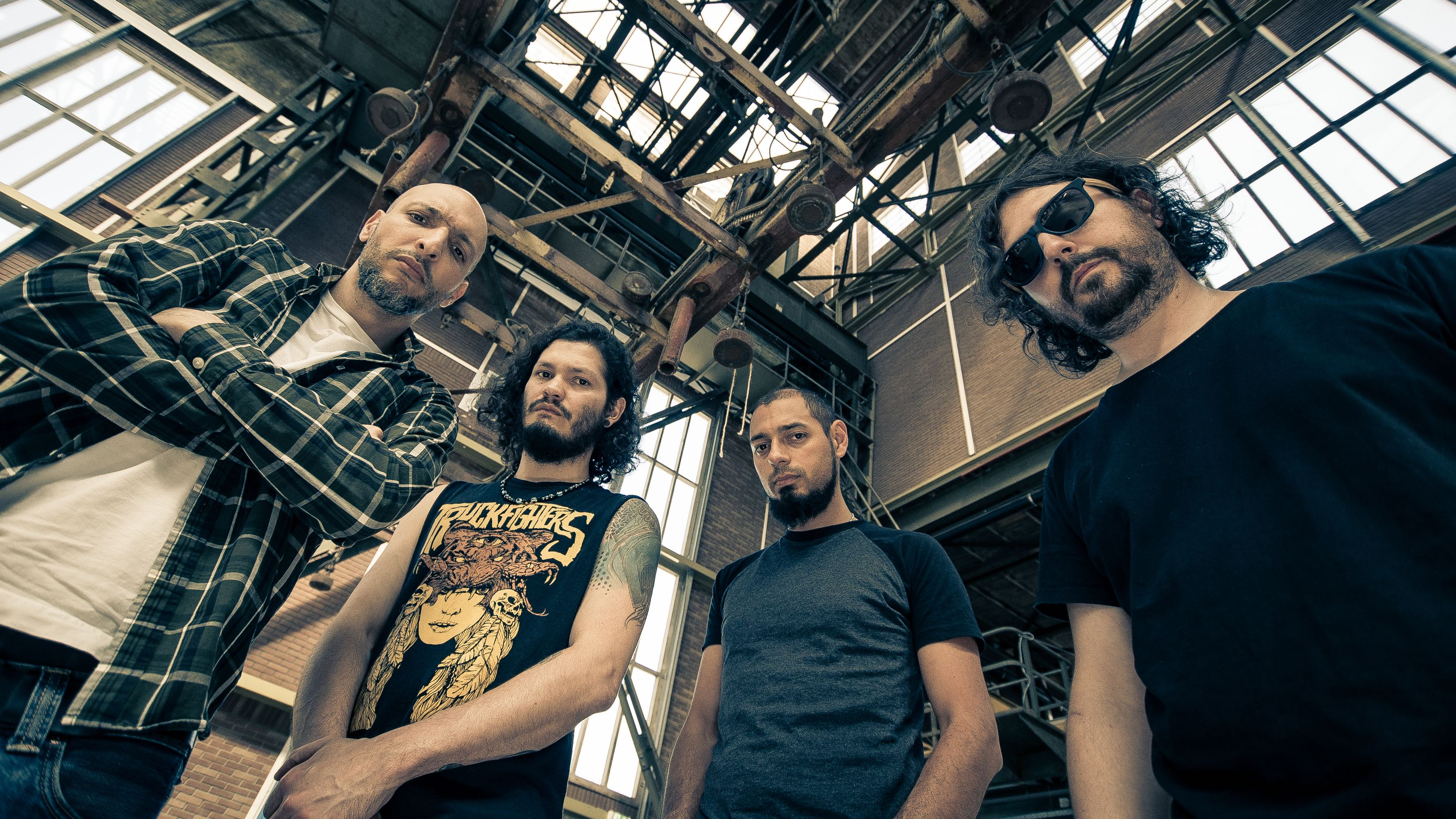 Band picture of the progrock band cultura tres 2017